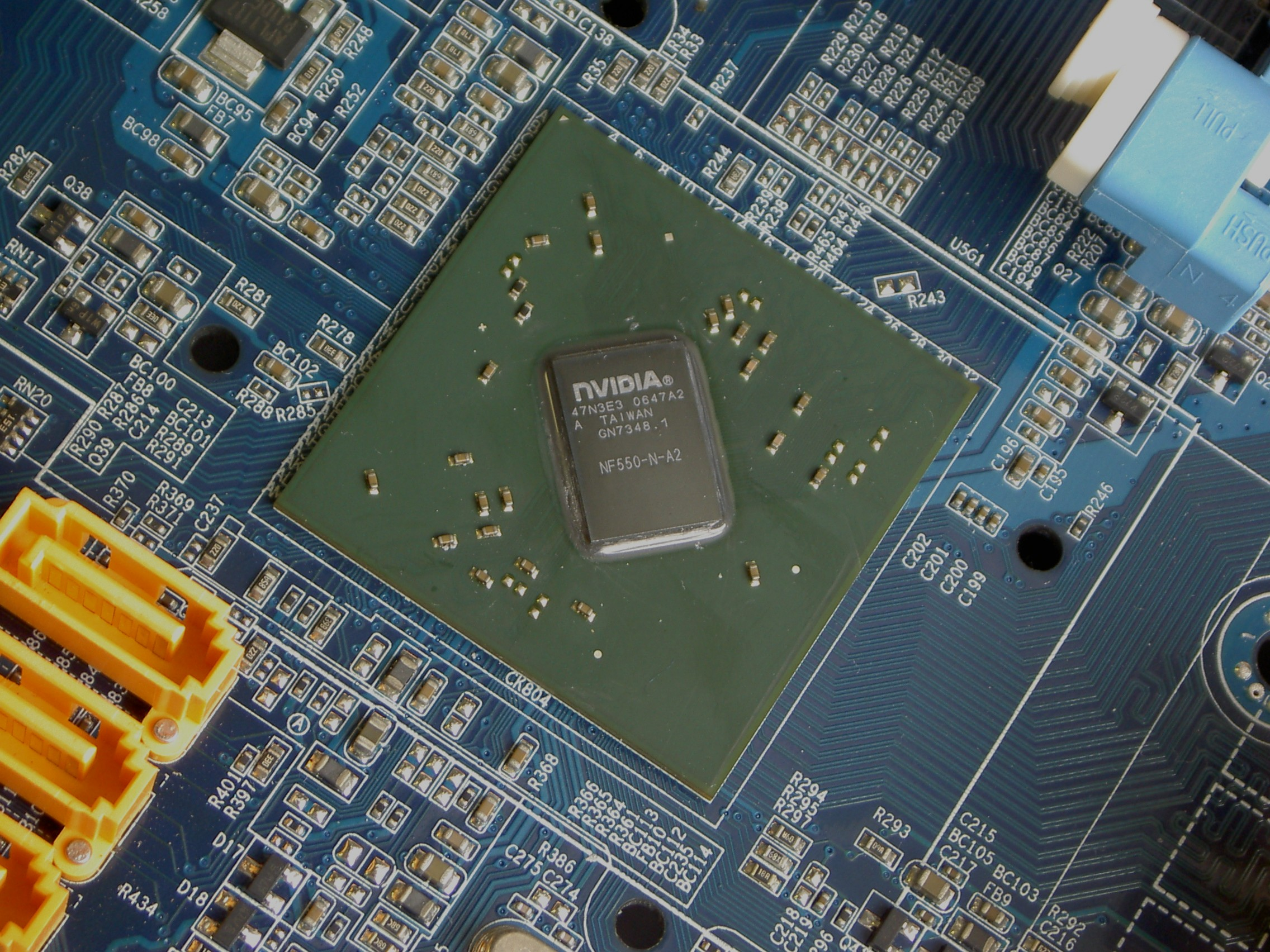 NVIDIA nForce550 all in one chipset.